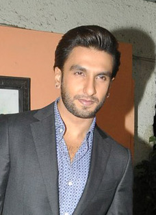 Ranveer during promotion of Gunday, 7th Feb, 2014